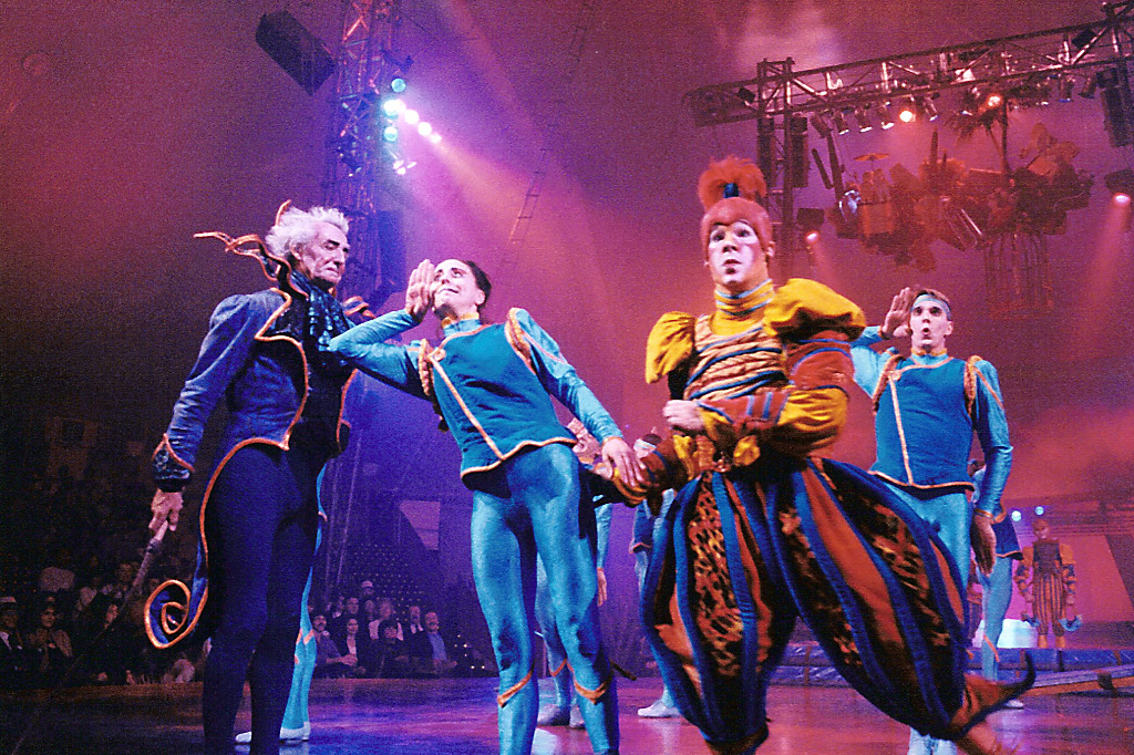 Outakes from the last show of Cirque's Nouvelle Experience show at the Mirage Hotel in Las Vegas back in 1994. I worked for Cirque in Vegas for a few weeks photographing the closing and the opening of Mystere at Treasure Island. Shot on Ektachrome P1600 film.